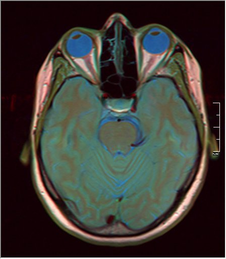 False color Brain MRI, Glioma